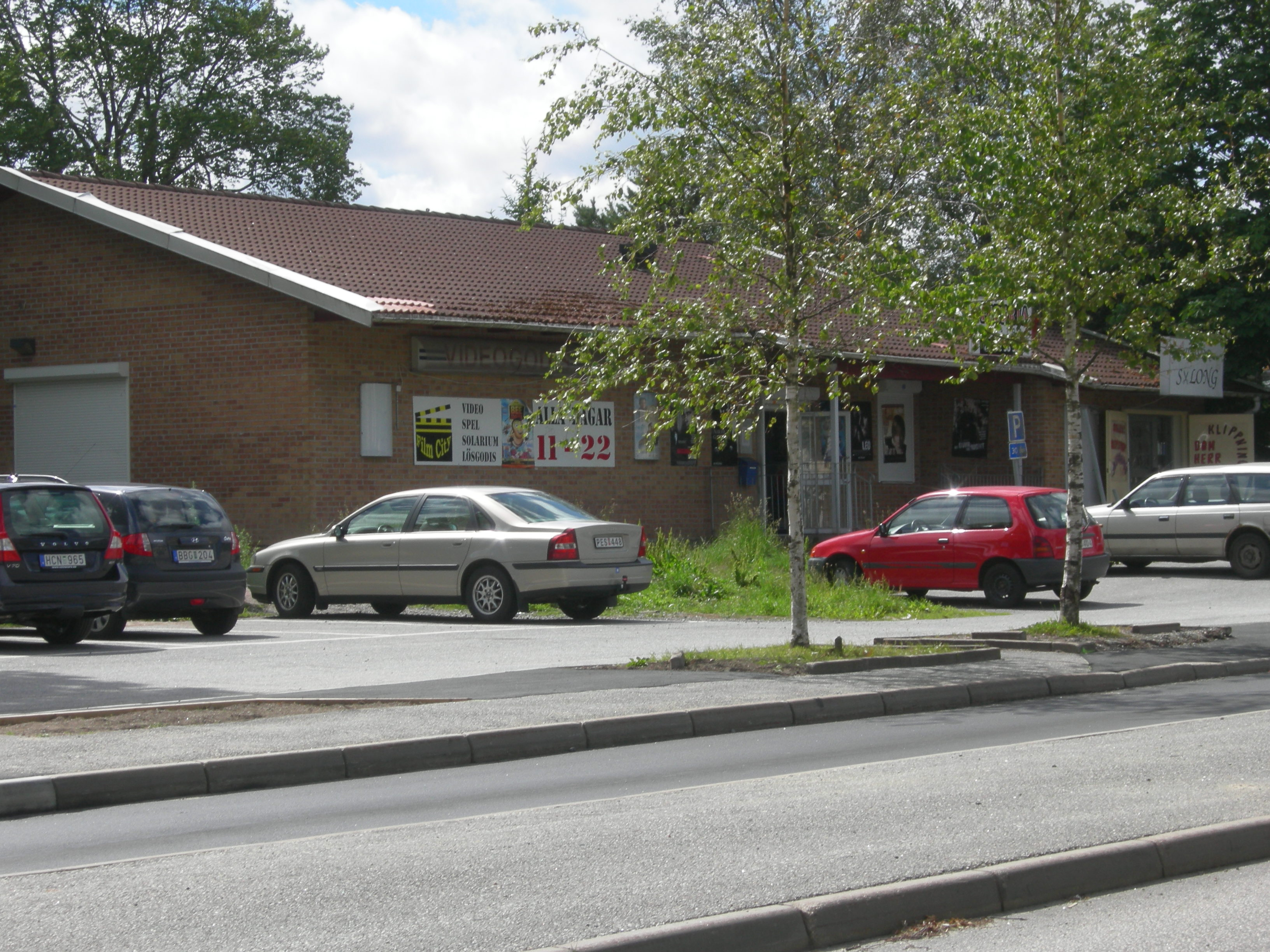 Olofstorp, Gothenburg, Sweden